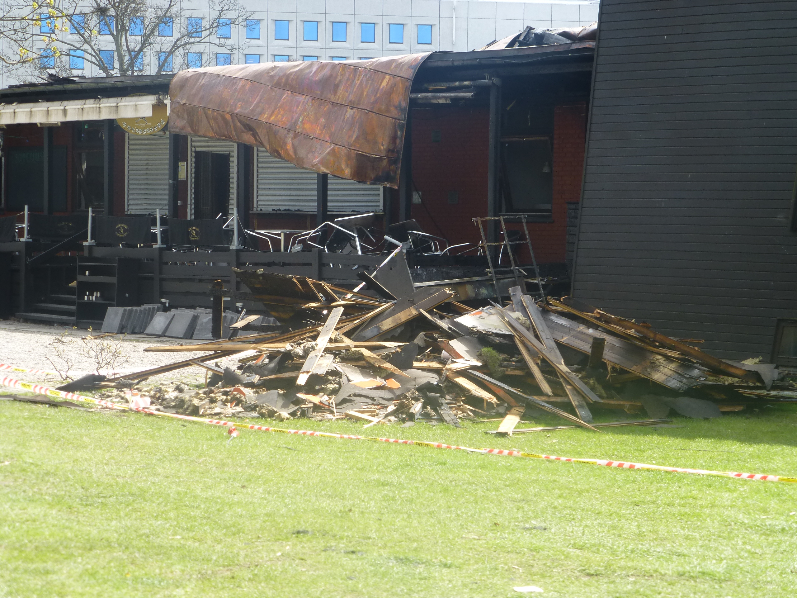 The Museum of Danish Resistance in Copenhagen after it was hit by a fire April 28th 2013.